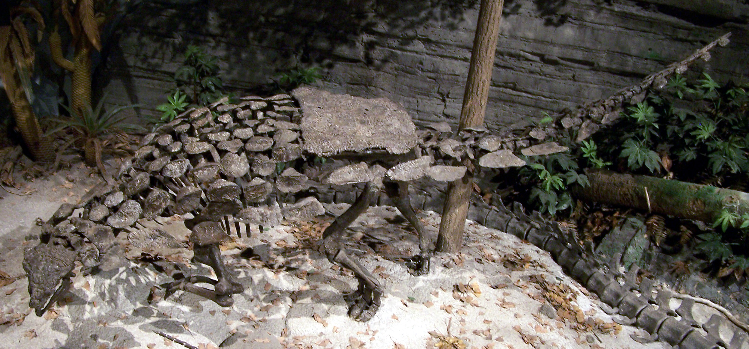 Gargoyleosaurus, North American Museum of Ancient Life.